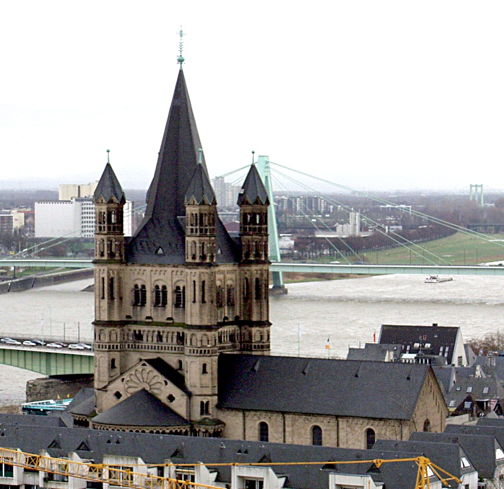 Deutzer Brücke, Martinsviertel und Groß St. Martin, Cologne, Germany